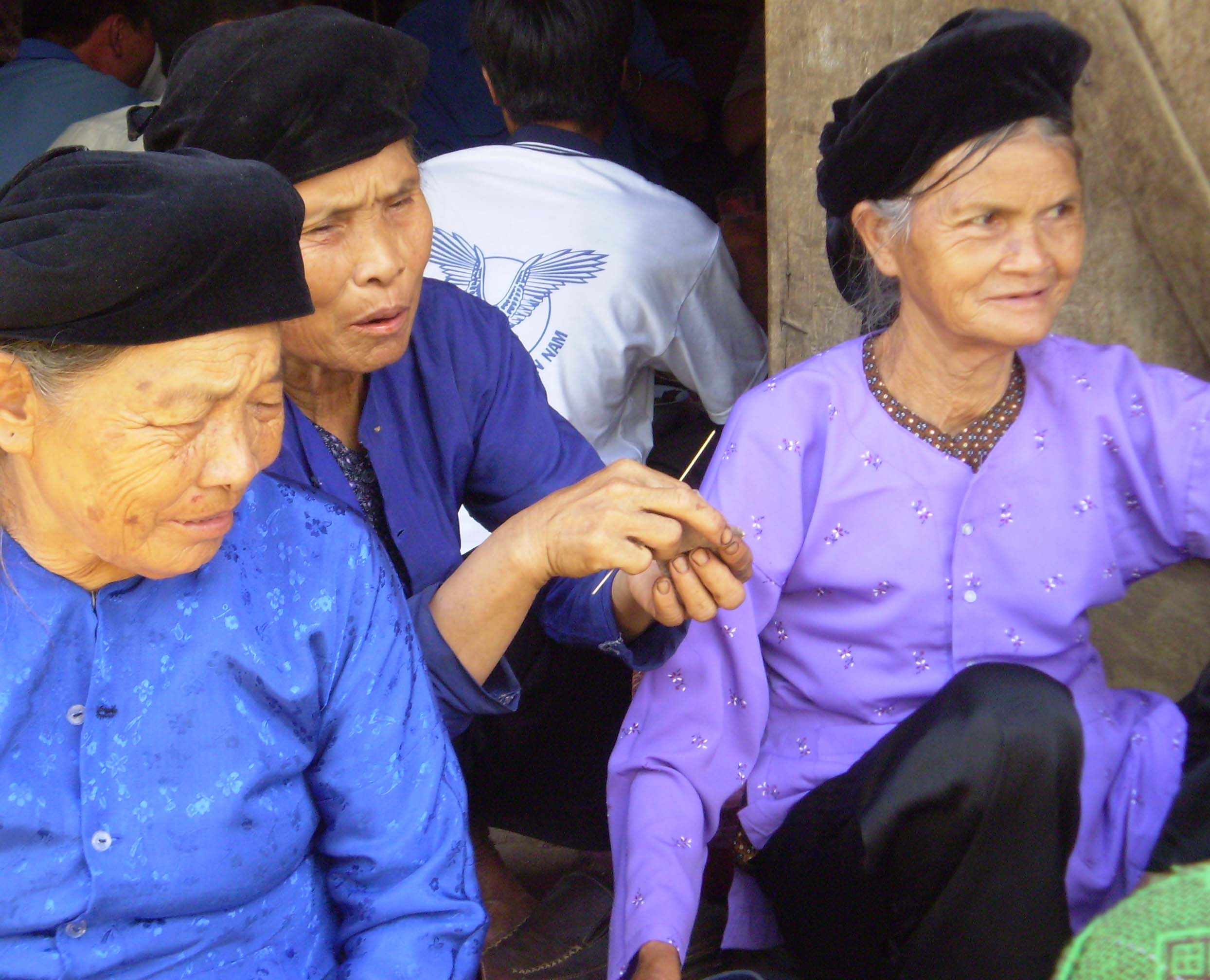 Women of Tay